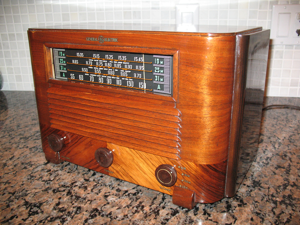 A restored 1941 Canadian General Electric KL-500 4-band radio, with AM and 3 SW bands